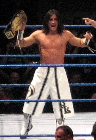 Paul London during a show of the WWE SmackDown Live Tour in Barcelona